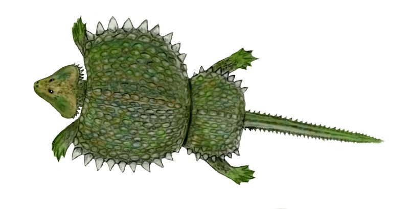 Cyamodus rostratus, placodont from the Early Triassic of Germany, after a sketch by Darren Naish, pencil drawing, digital coloring